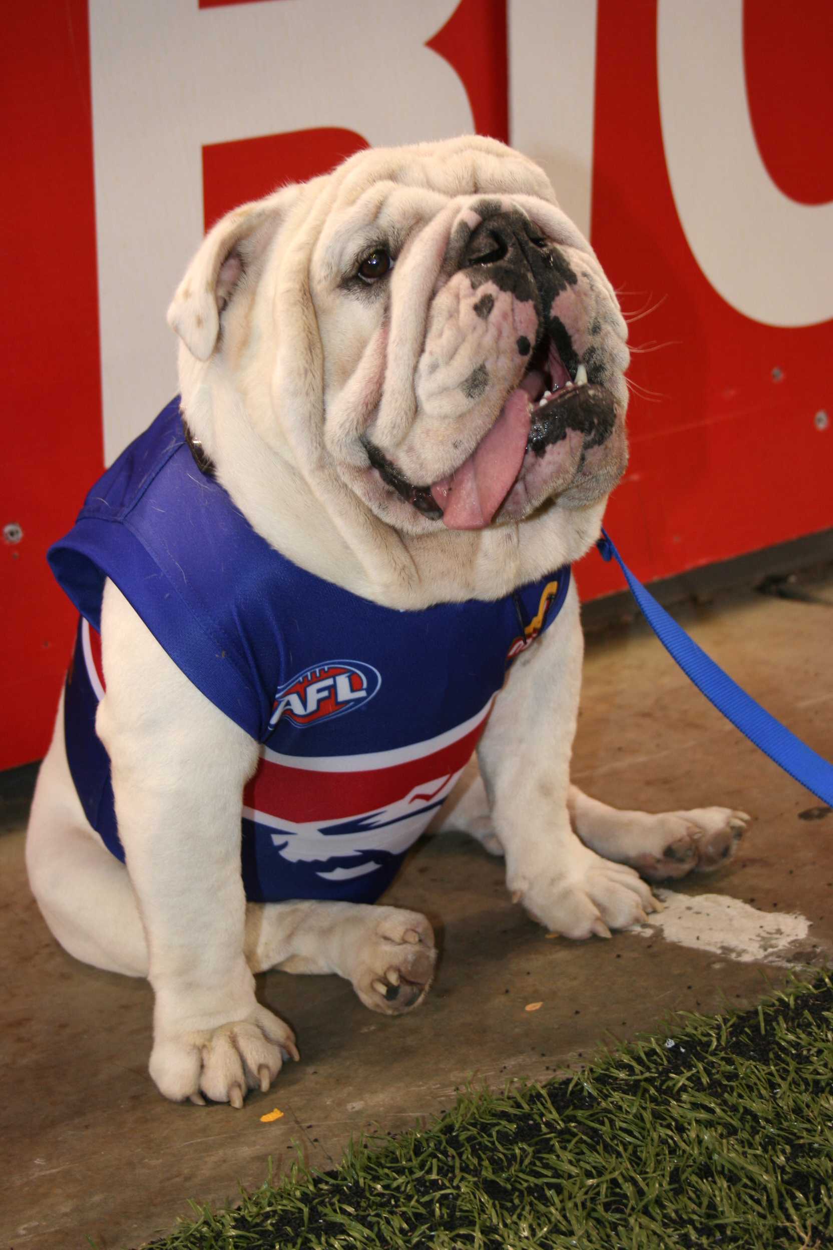 British Bulldog Mascot "Sid" of the Footscray Western Bulldogs Australian football club.